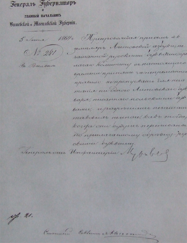 Governor's Muravyov edit issued in 1864 06 05, is regarded as starting point of Lithuanian press ban